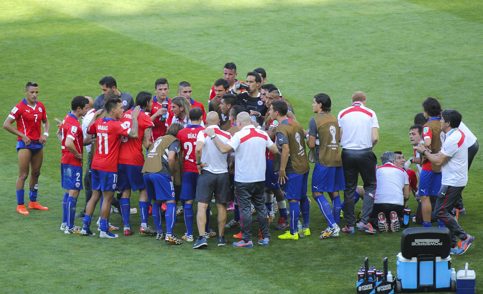 Brazil vs. Chile in Mineirão